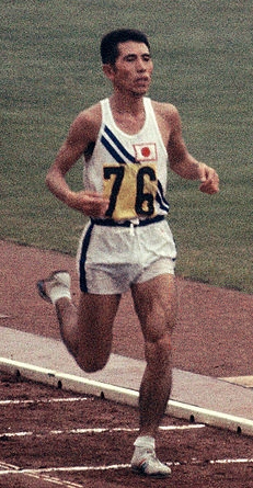 Toru Terasawa at the 1964 Olympics